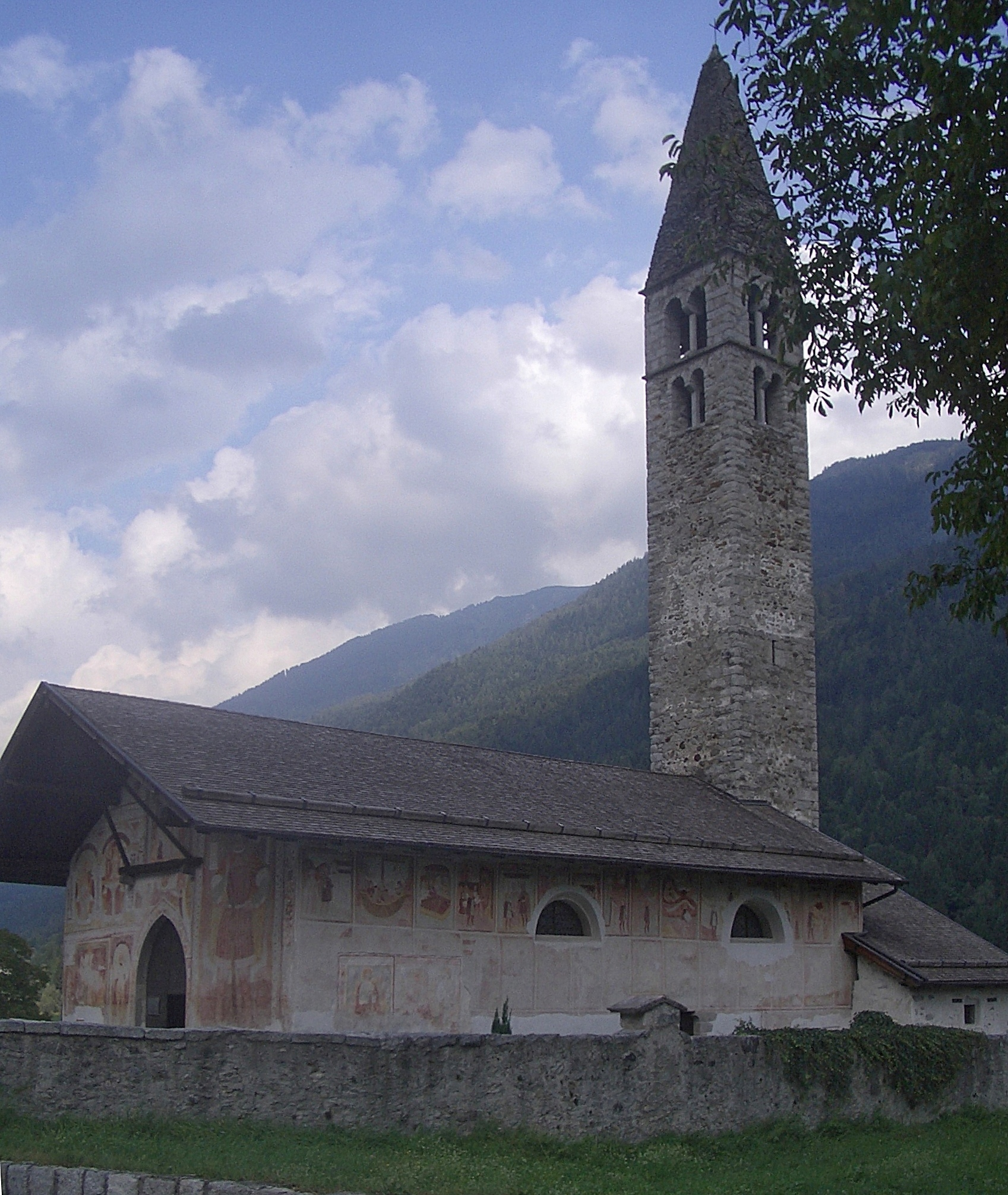 Pelugo (Province of Trento, Italy), cemeterial church dedicated to St. Anthony the Abbot